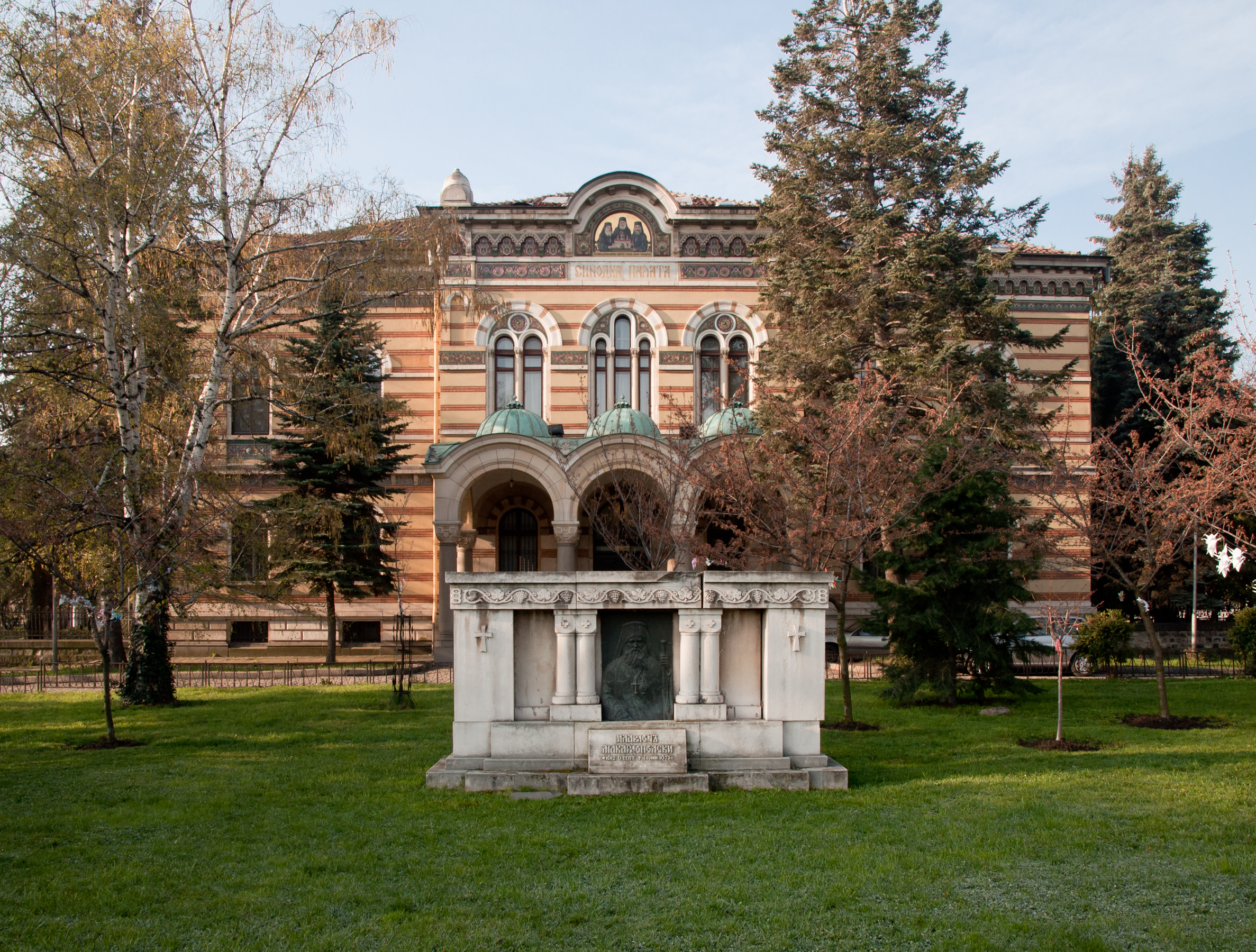 Holy Synod Palace in Sofia with Ilarion Makariopolski Memorial in front of it.